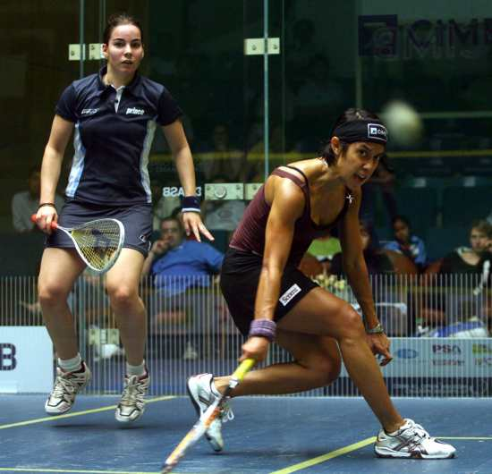 Nicol David returning the ball to Jenny Duncalf of England during their match at the CIMB Open at National Squash Complex in Bukit Jalil, Selangor.